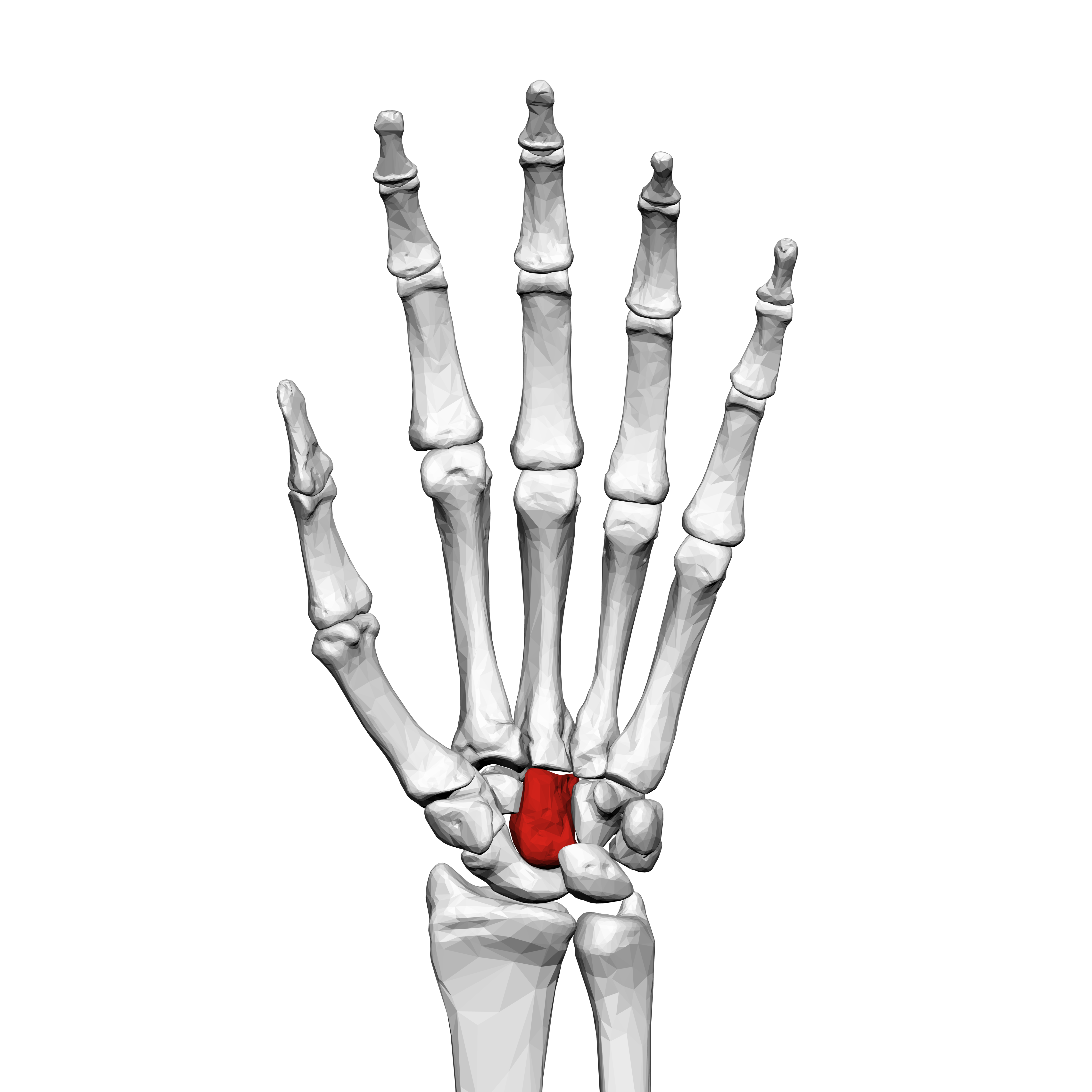 Capitate bone (shown in red).